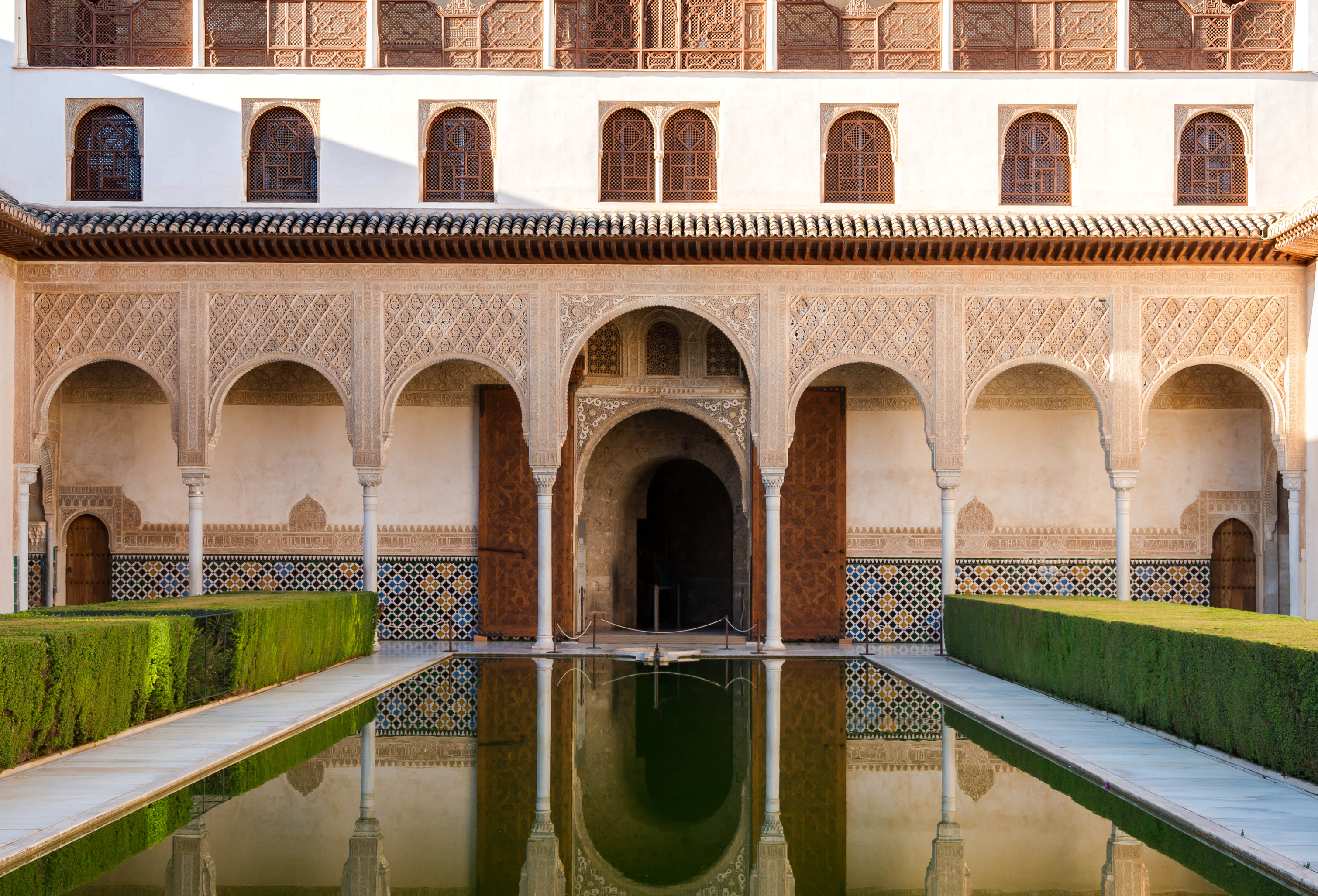 Patio de los Arrayanes (Court of the Myrtles), detail, Alhambra, Granada, Spain.